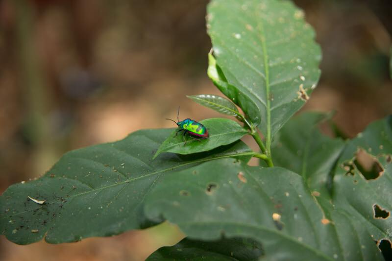 Colorful bug.